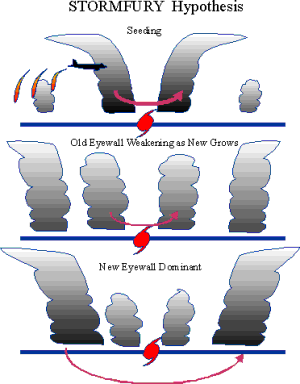 Project STORMFURY was an ambitious experimental program of research on hurricane modification carried out between 1962 and 1983. The proposed modification technique involved artificial stimulation of convection outside the eyewall through seeding with silver iodide. The invigorated convection, it was argued, would compete with the original eyewall, lead to reformation of the eyewall at larger radius, and thus, through partial conservation of angular momentum, produce a decrease in the strongest winds.